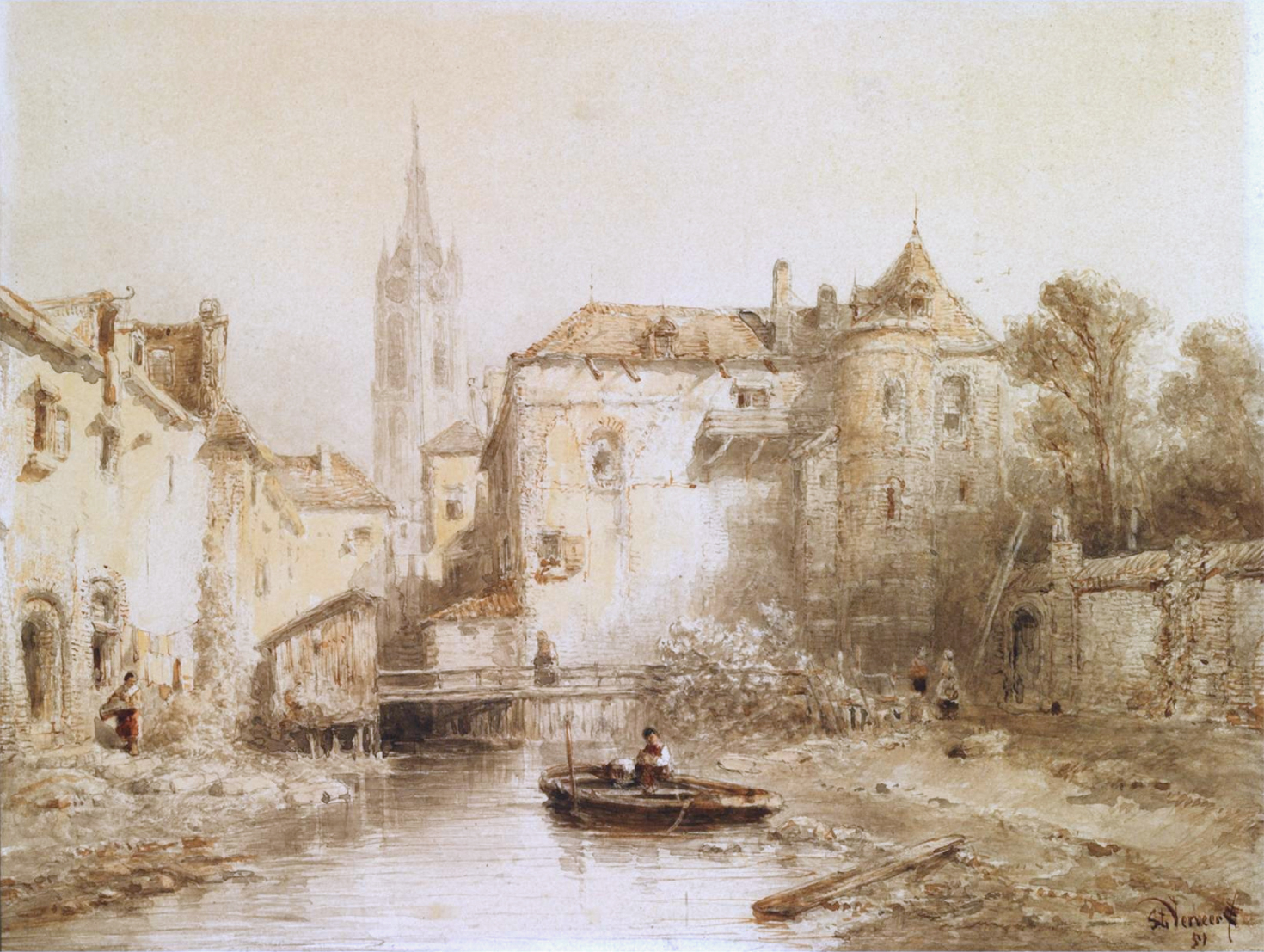 A view of a town with a bell tower 25 x 33 cm. signed and dated 51 l.r. watercolour over pencil on paper